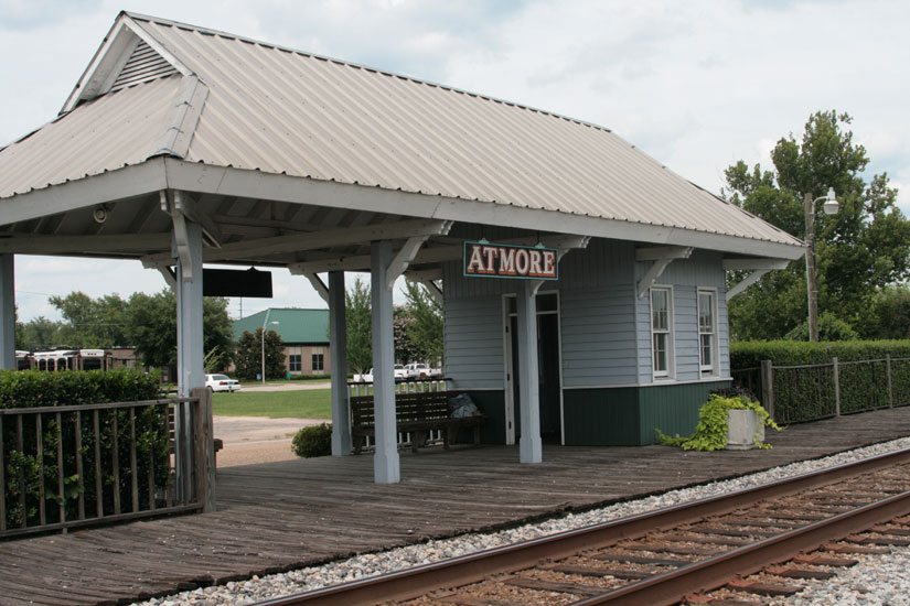 Picture I took.